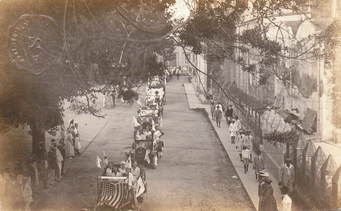 American Red Cross convoy in Santo Domingo, Dominican Republic, in 1916. Cropped from a contemporary postcard.